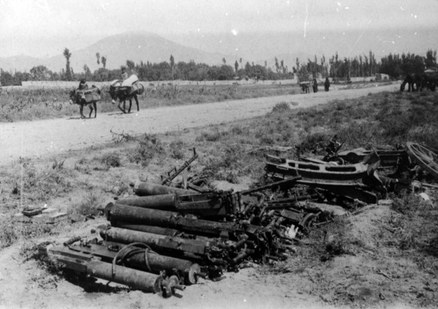 Photo of captured machine guns and artillery trails at Khan Ayash, Syria. The weapons were captured from Ottoman forces by members of the Australian 9th Ligh Horse Regiment Other information Copyright expired access unrestricted